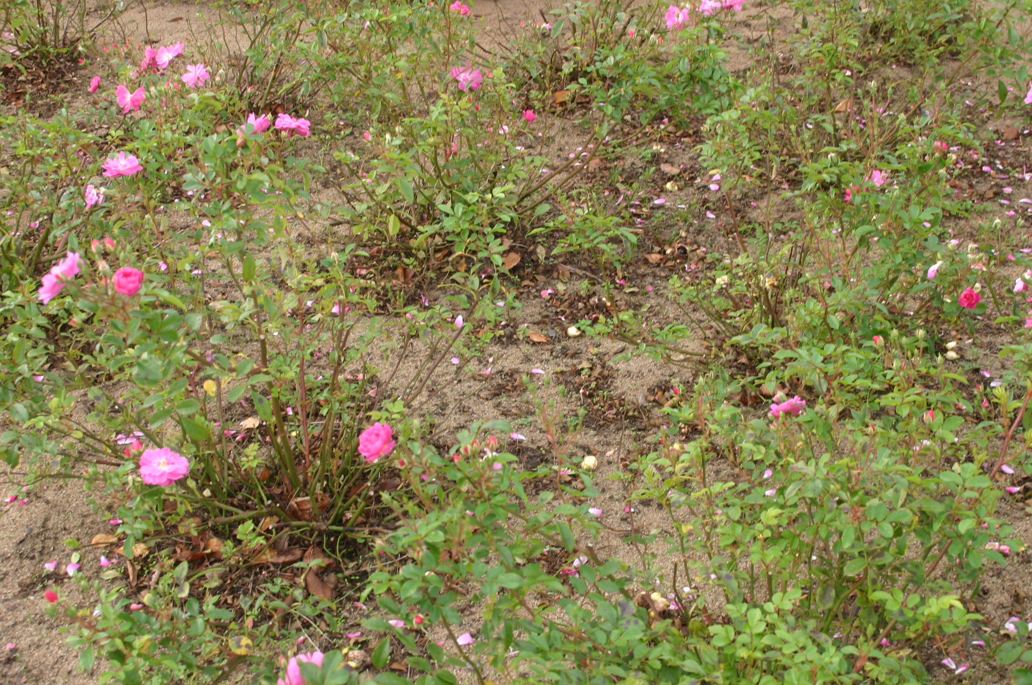 Groundcover roses without fertilizer, photo taken in Jutland.